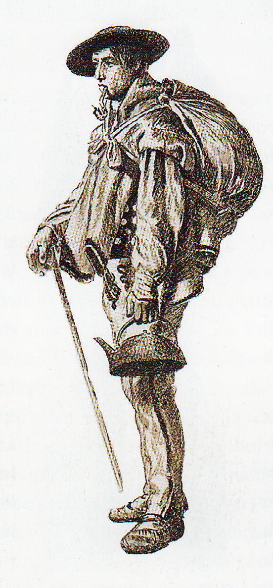 Typical clothing from the 19th century mountain leader, Poland